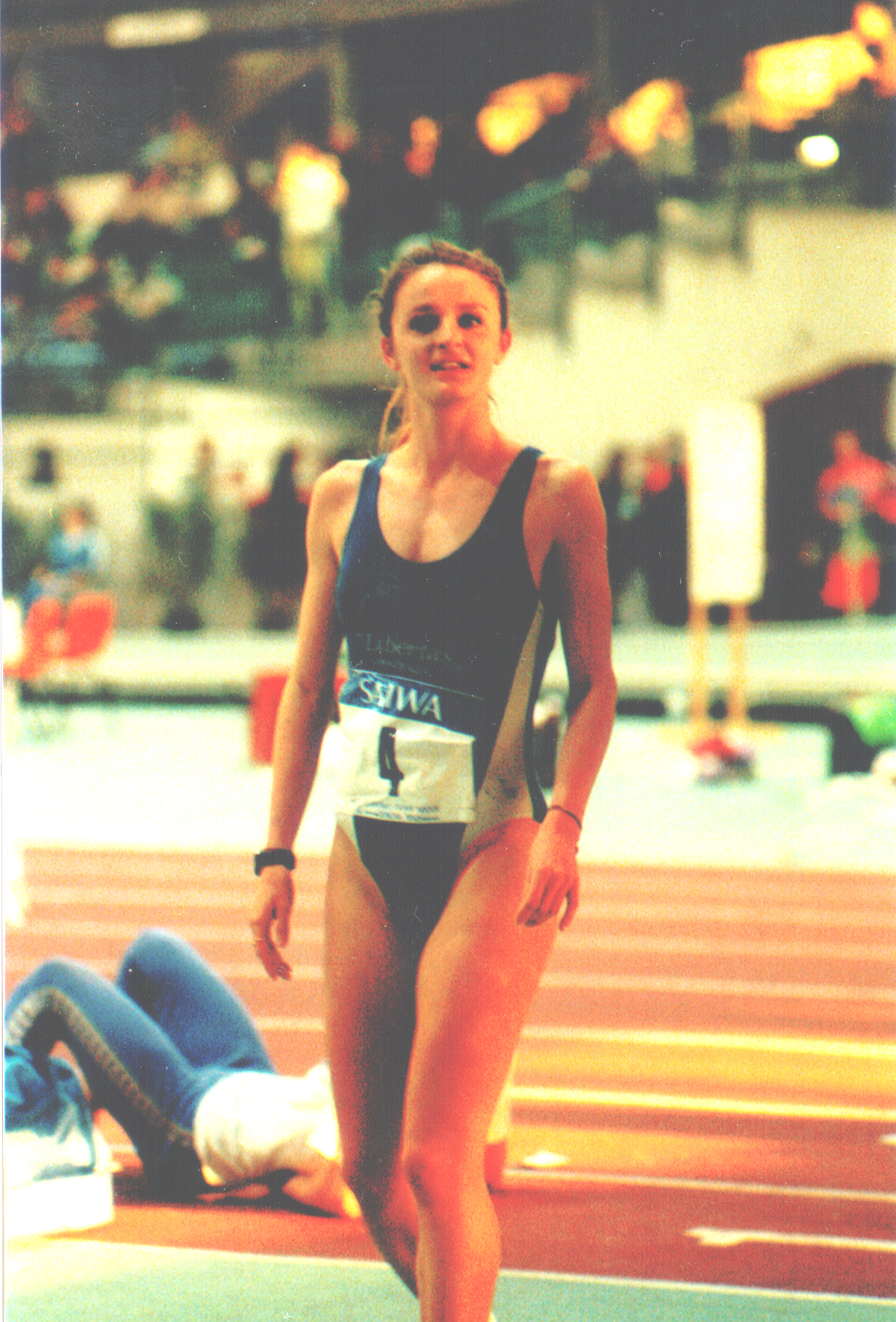 Isabella Corbellini - Campionati Italiani Assoluti Indoor